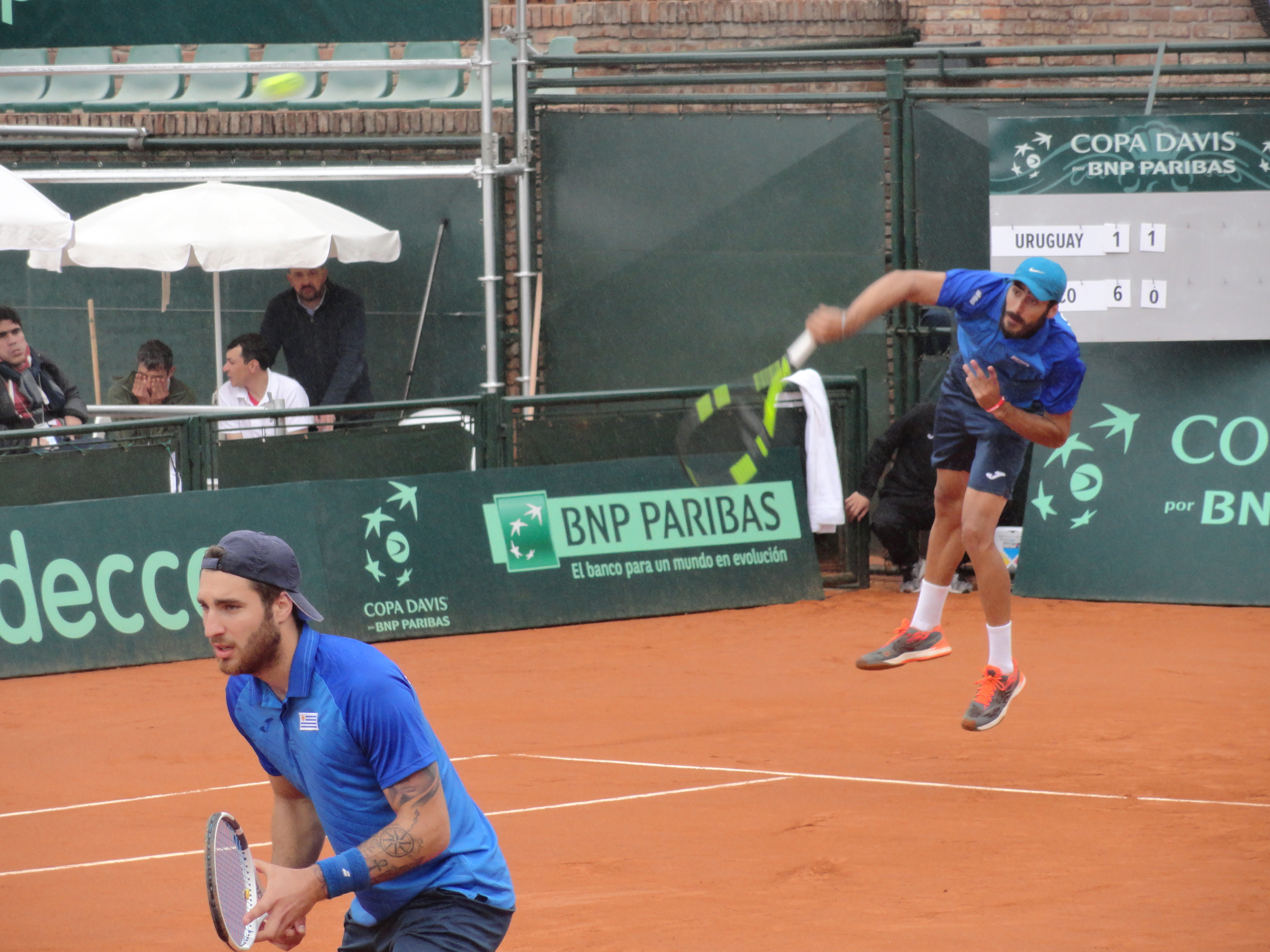 Doubles tennis match at the 2018 Davis Cup Americas Zone match between Uruguay and Mexico, held at the Carrasco Lawn Tennis in Montevideo.